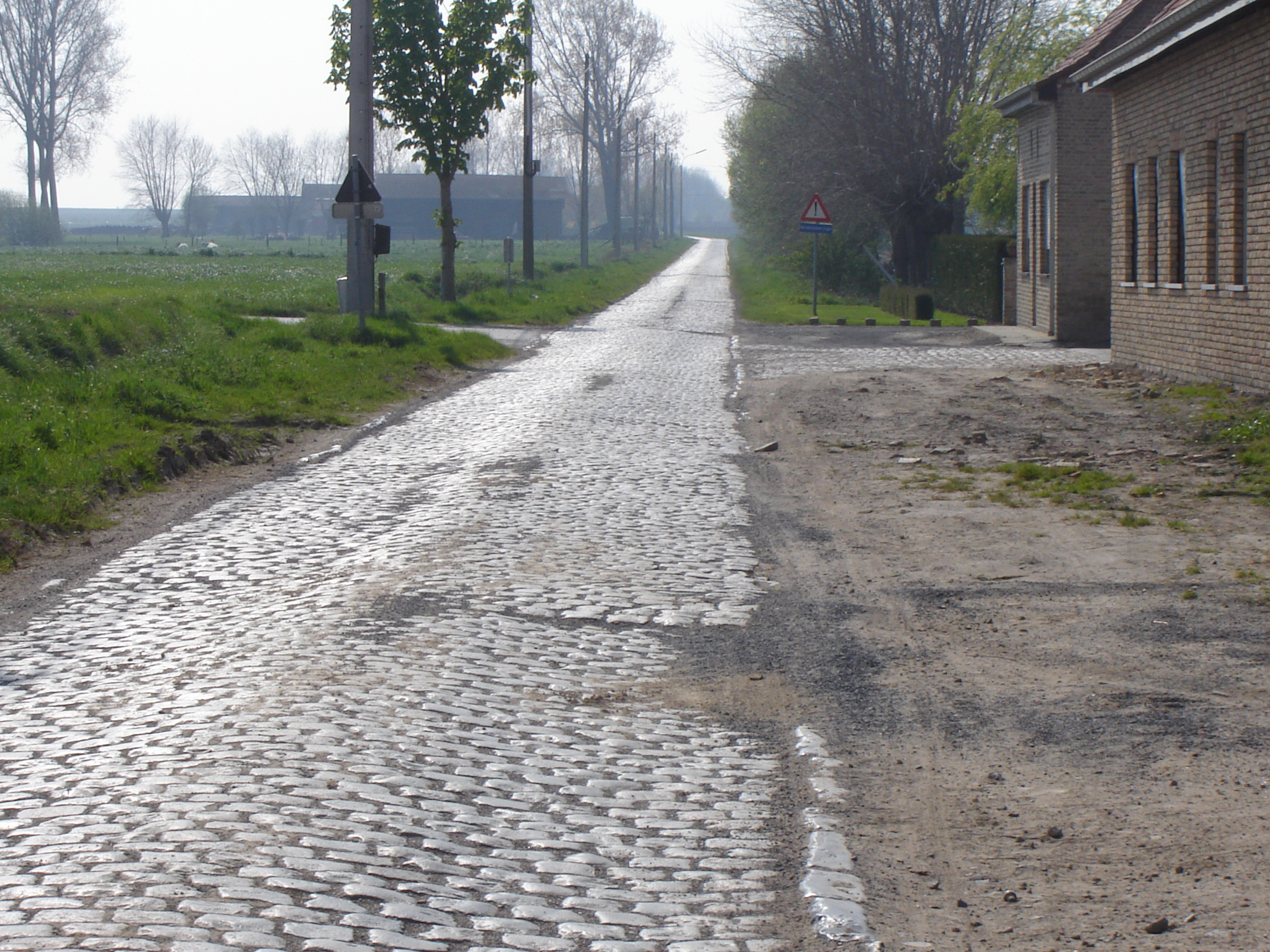 De Steenstraat street in Esen. Esen, Diksmuide, West-Flanders, Belgium